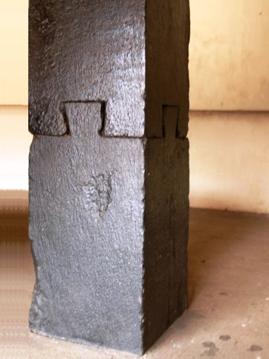 Stone pillar at Vazhappally Maha Siva Temple, which has been believed as built by Perumthachan. It's four sides are identical, and now it is unknown that how two parts were joined.